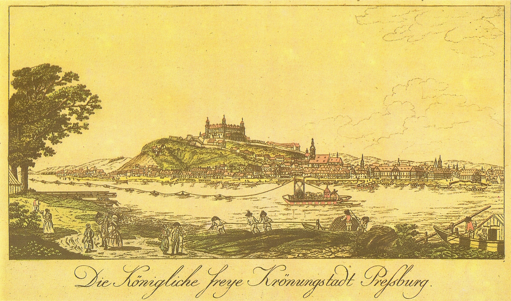 It reads "Free Royal Coronation town of Bratislava."